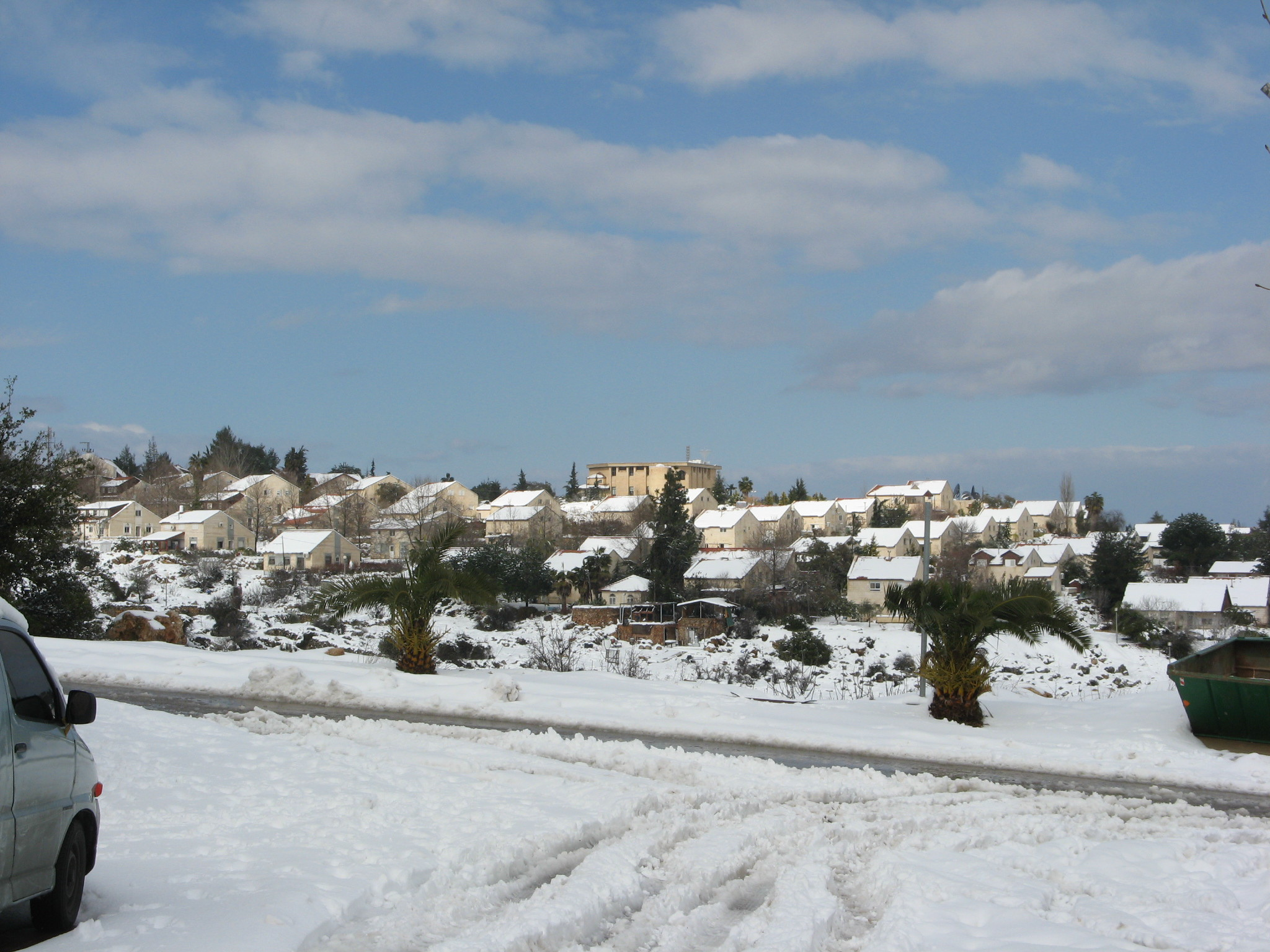 Ofra covered with snow